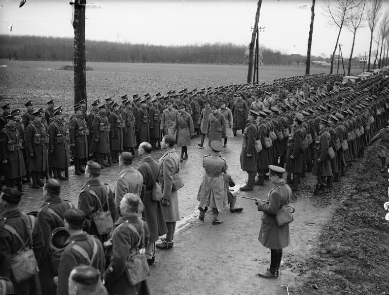 The British Expeditionary Force (bef) in France 1939-1940 HM King George VI visits the BEF, December 1939: The King reviews the 2nd Battalion, Coldstream Guards at Bachy.